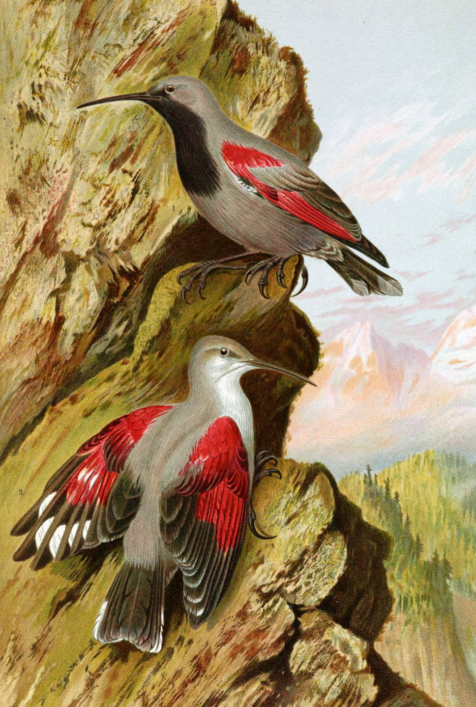 Tichodroma muraria. Naumann